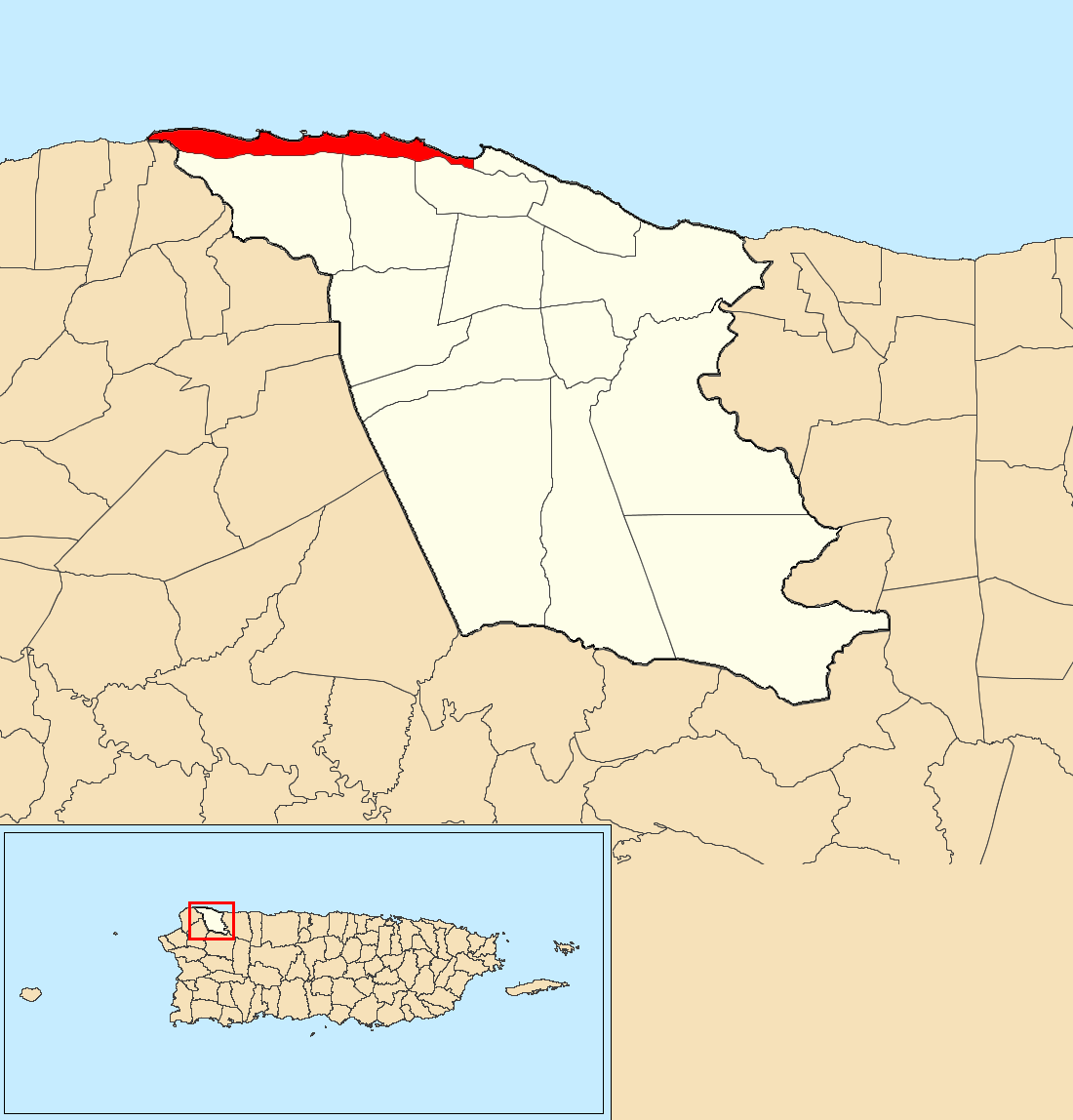 Bajura, Isabela, Puerto Rico locator map